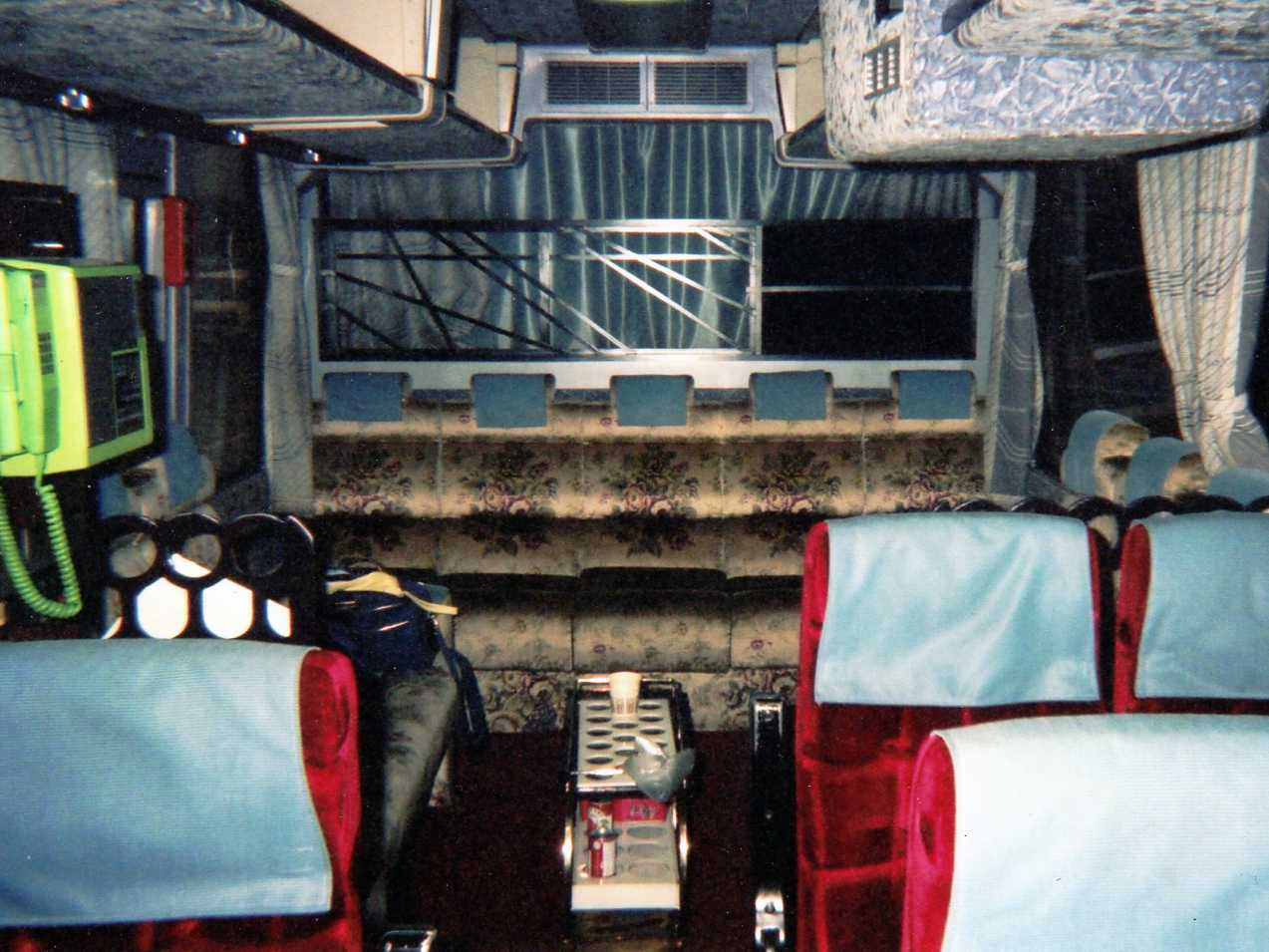 Inside of Hihon Kyuko Bus "Salon Express" Mitsubishi P-MS725SA at Taga Service Area